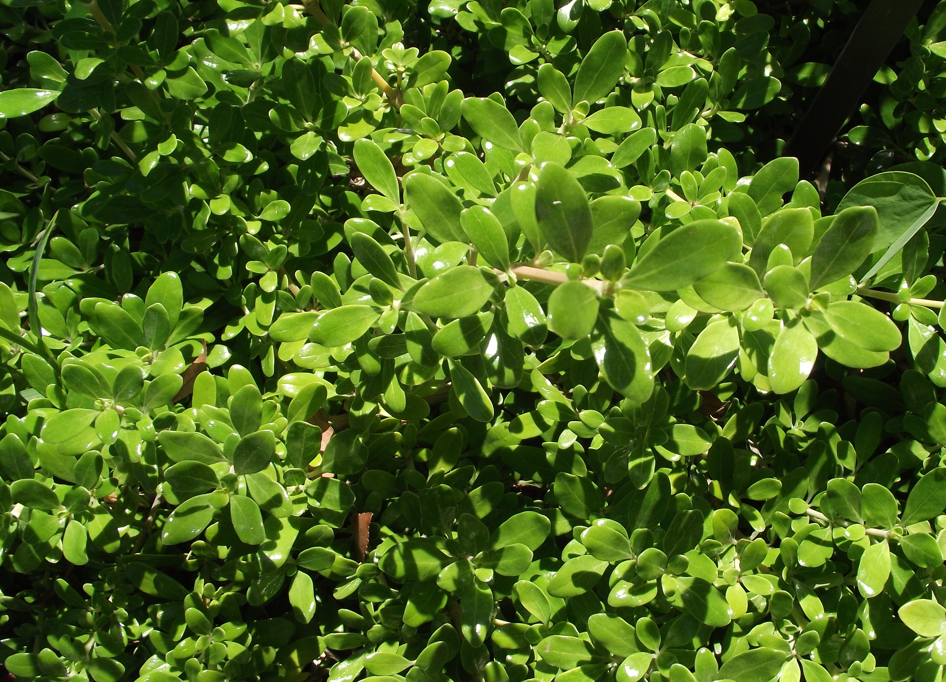 Coprosma kirkii at the Water Conservation Garden, Cuyamaca College, El Cajon, California, USA